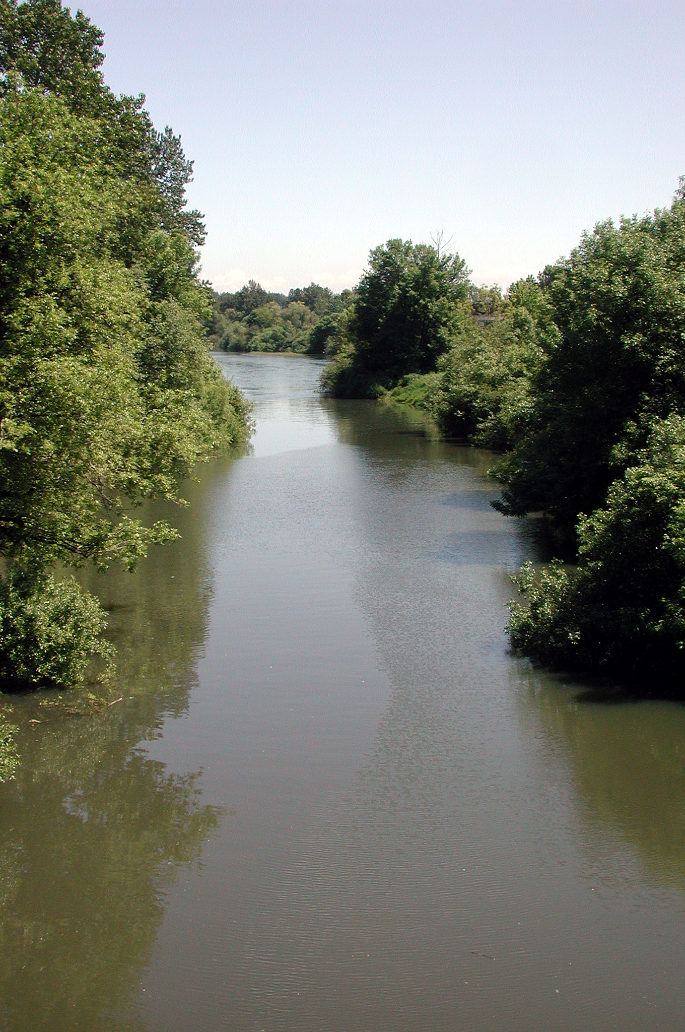 Marys River near the mouth in Corvallis, Oregon. View from Highway 99 bridge looking east toward the Willamette River.